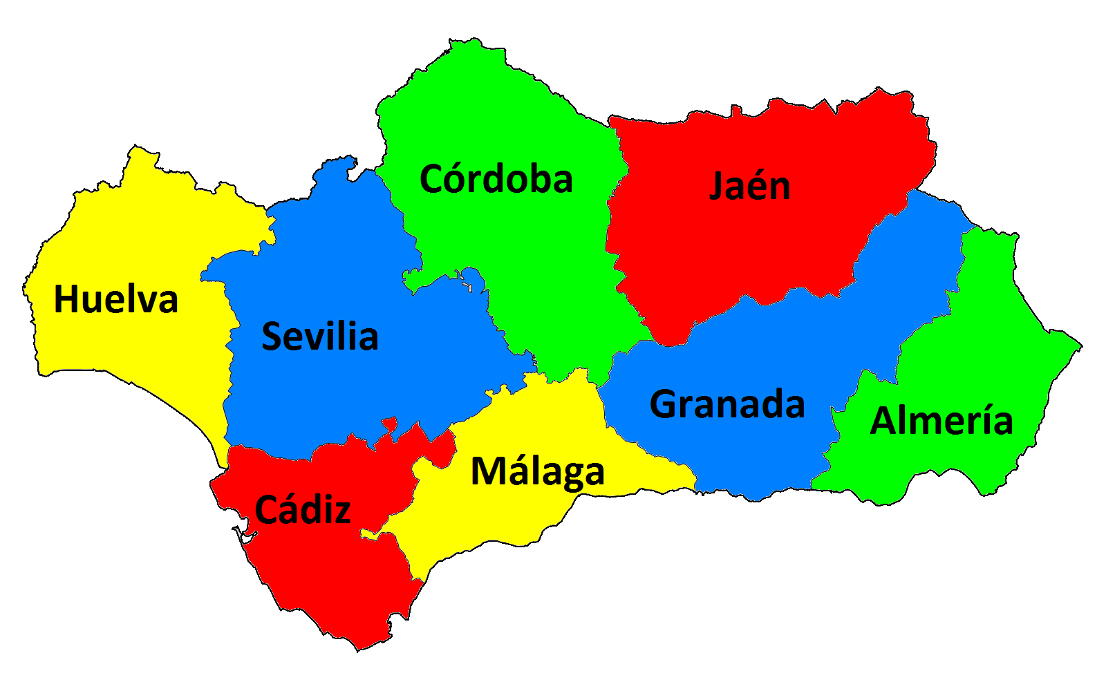 Administrative map of Andalusia in Romanian